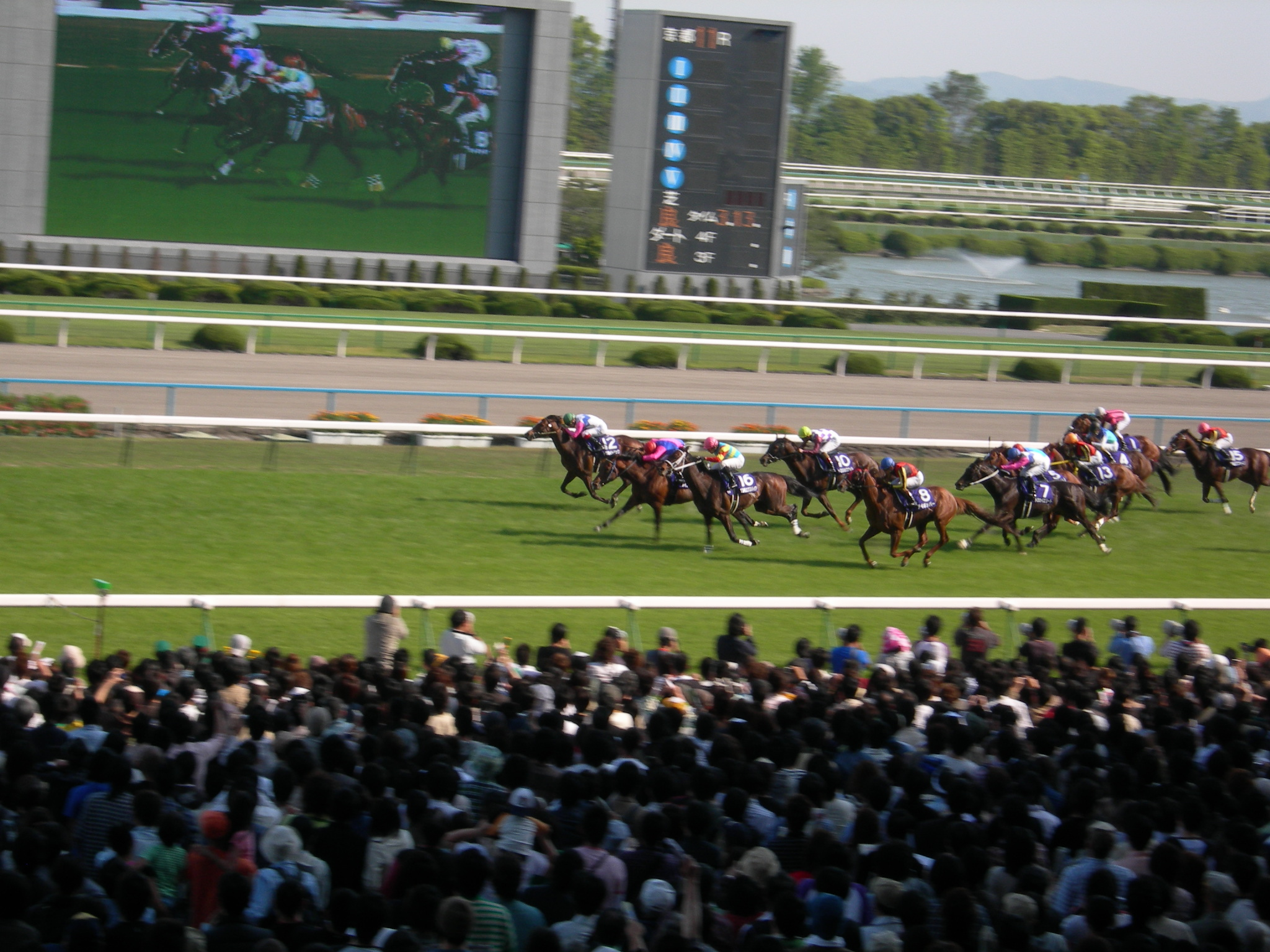 135th Tenno Sho. taken in 2007.